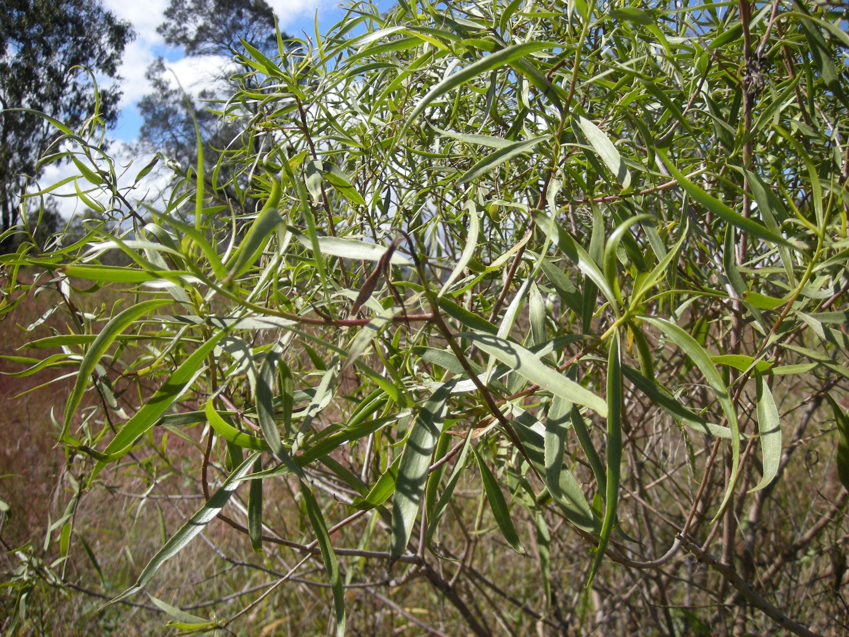 Eremophila bignoniiflora leaves, softwood scrub, coastal Central Queensland